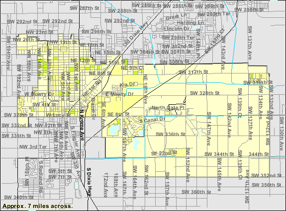 map of Homestead, Florida showing city limits